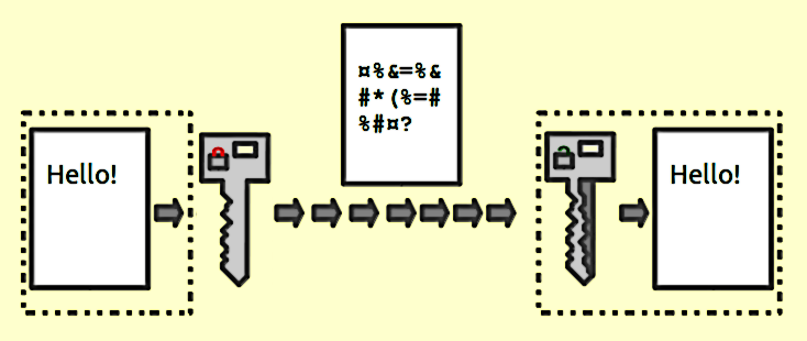 Illustration of how a file or document is sent using "Public key encryption".